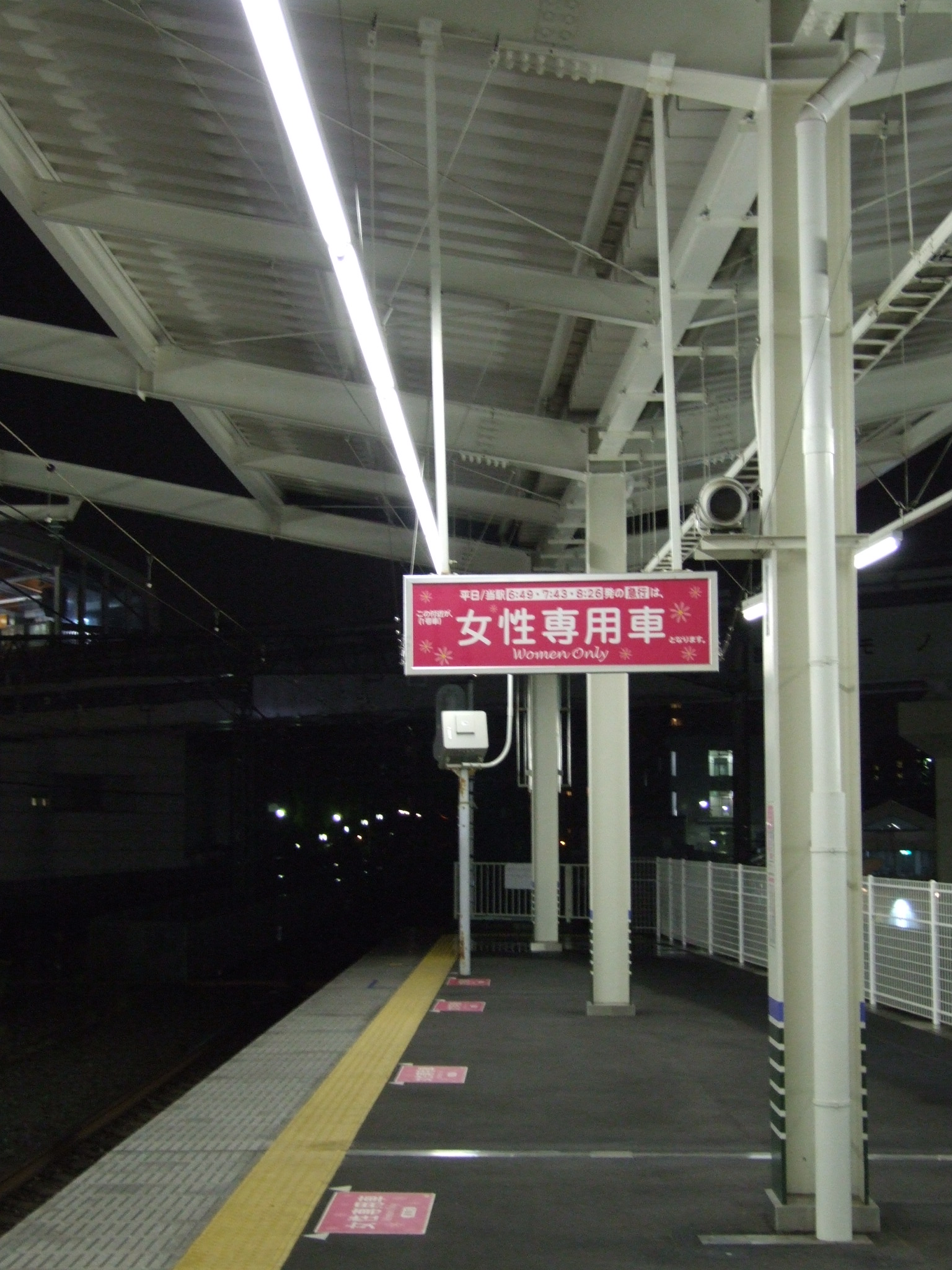 Women Only Car Platform Indicating, Odakyu Electric Railway, Japan